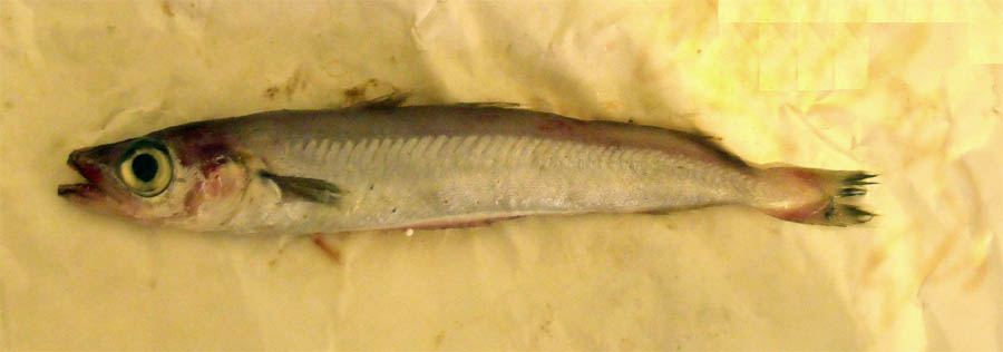 Micromesistius poutassou collected in central Thyrrenian sea (Italy).